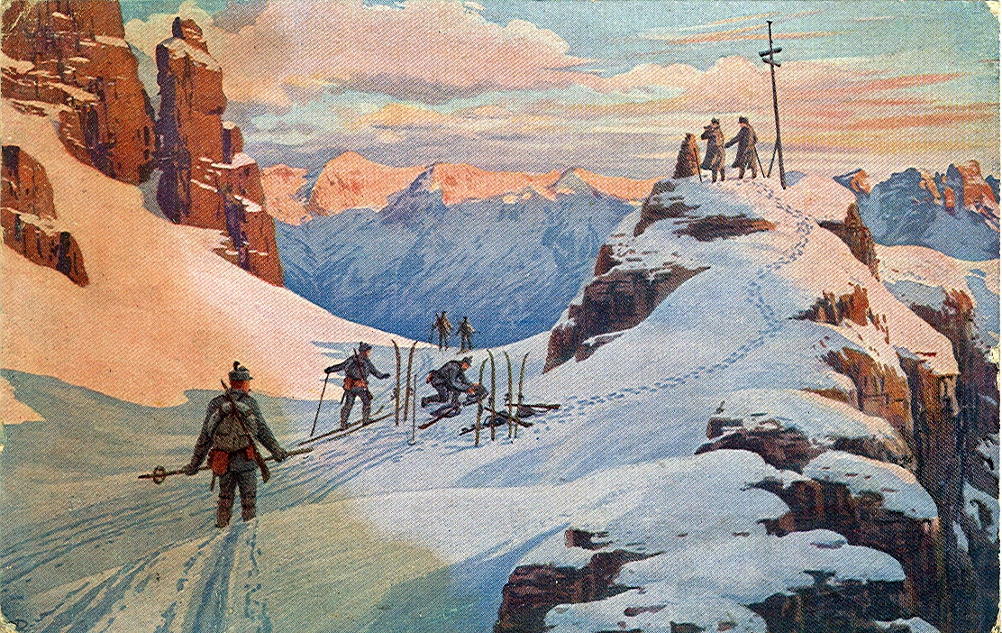 Postcard, dated 12.1.1916. Title: "Fighting for Tyrol - a new day".